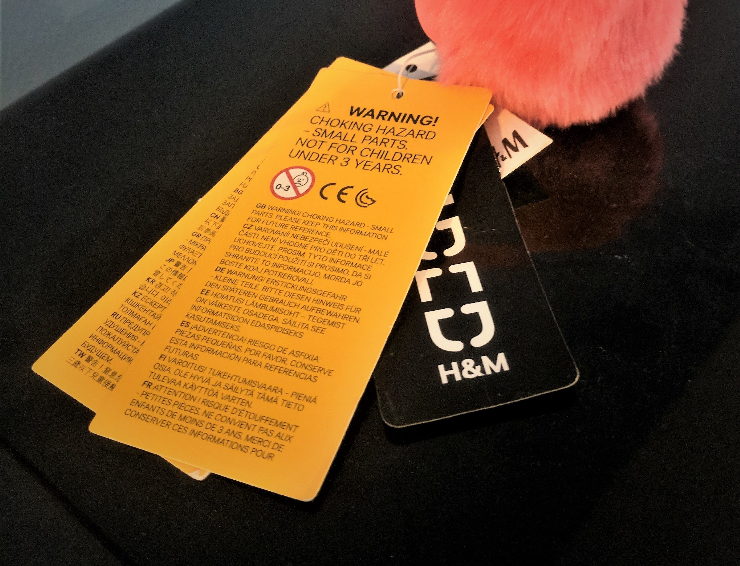 An accessory from H&M featuring a small parts warning label in many languages